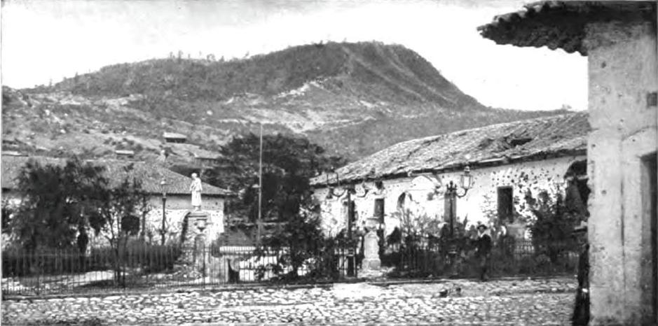 Barracks of Tegucigalpa 1895